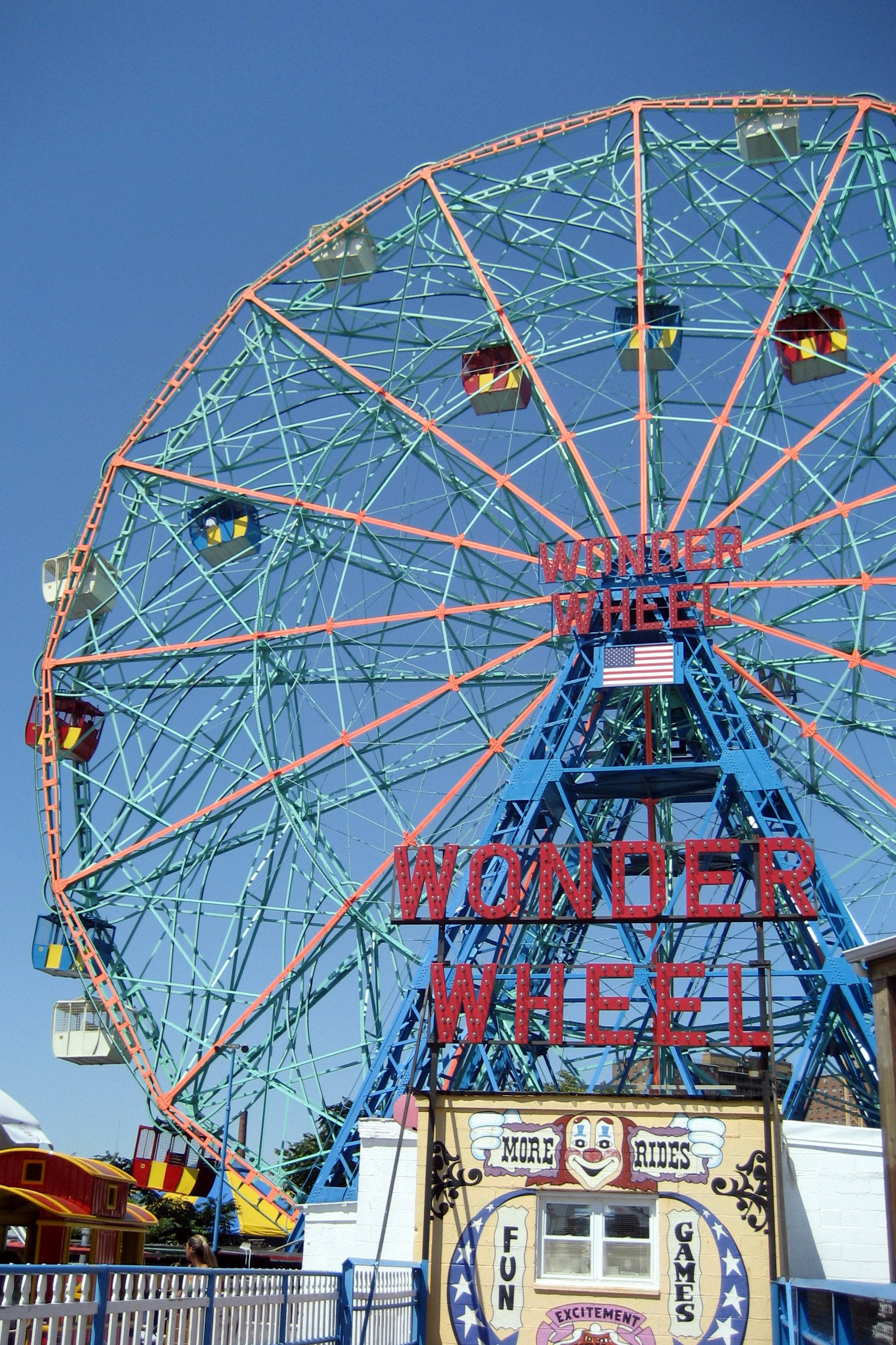 Deno's Wonder Wheel on Coney Island, New York